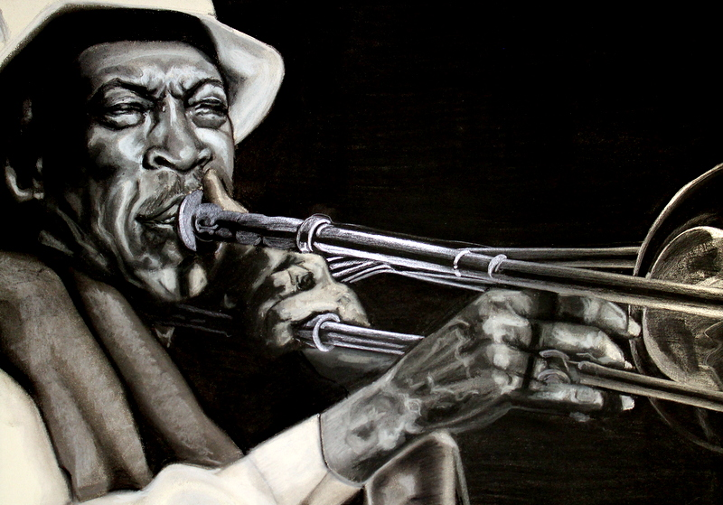 "Al Grey, the last great big time plunger". Charcoal, pastel, and graphite on paper, 18" x 24", 2015.